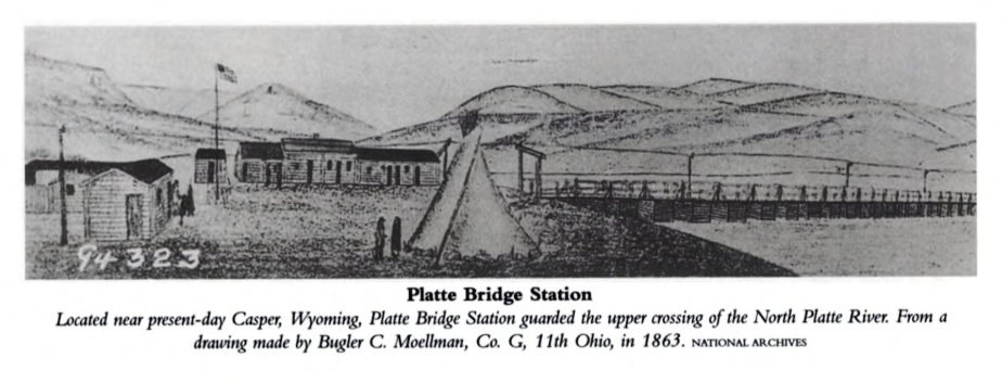 The location of a toll bridge and trading post prior to the American Civil War, it became one of many linked army stations during the latter.